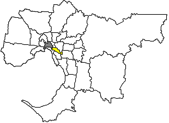 Map of Melbourne, Victoria (Australia), LGA of Stonnington City highlighted